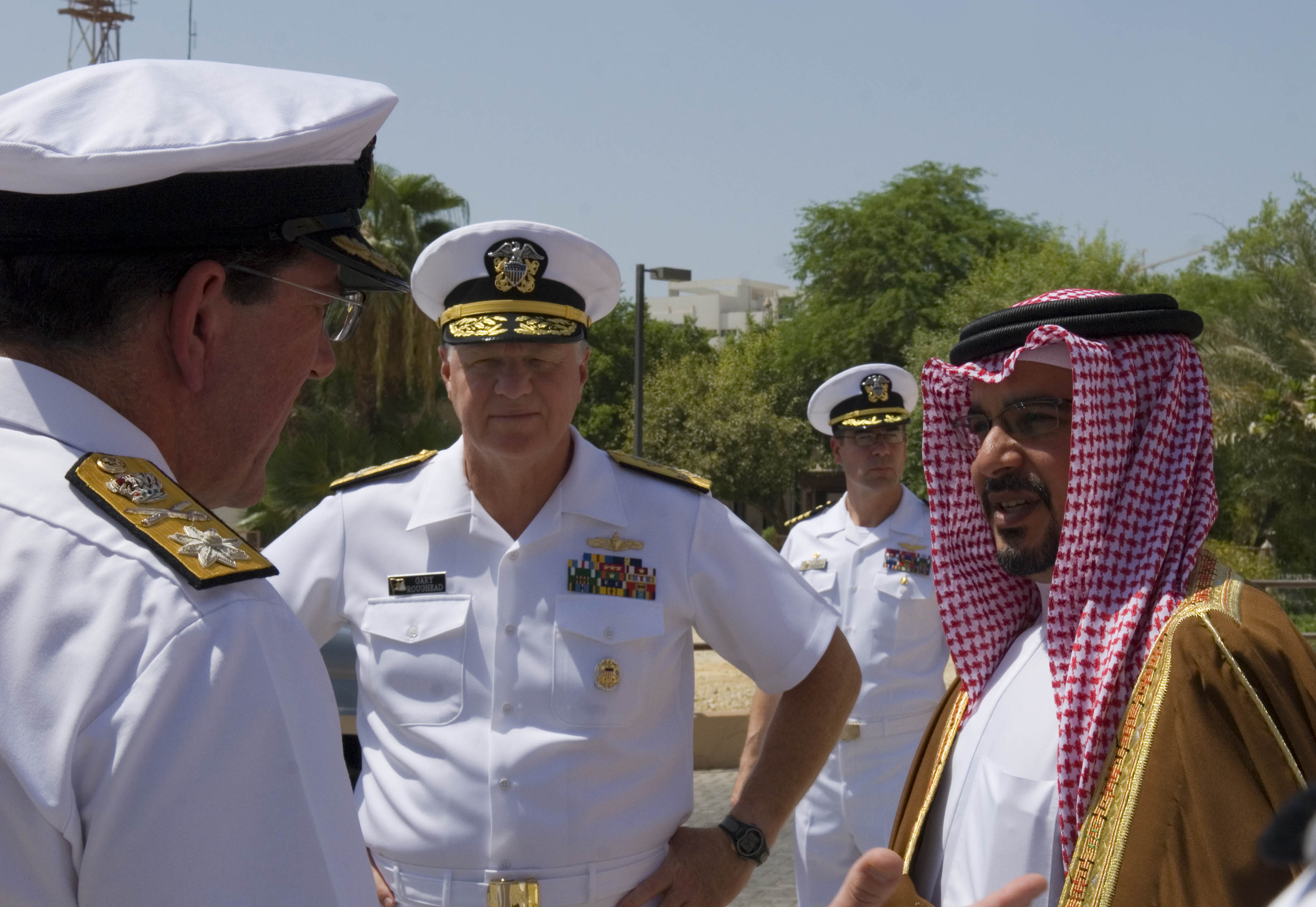 MANAMA, Bahrain (Aug. 11, 2008) Commodore Peter Hudson of the Royal Navy, left, and Chief of Naval Operations (CNO) Adm. Gary Roughead, center, speak with the Crown Prince of Bahrain, His Highness Sheikh Salman Bin Hamad Bin Isa Al Khalifa while touring Coalition Task Force (CTF)152 facilities at Naval Forces Central Command. Roughead and Master Chief Petty Officer of the Navy (MCPON) Joe R. Campa Jr. are traveling throughout the Central Command area of operations. (U.S. Navy photo by Mass Communication Specialist 1st Class Tiffini M. Jones/Released)